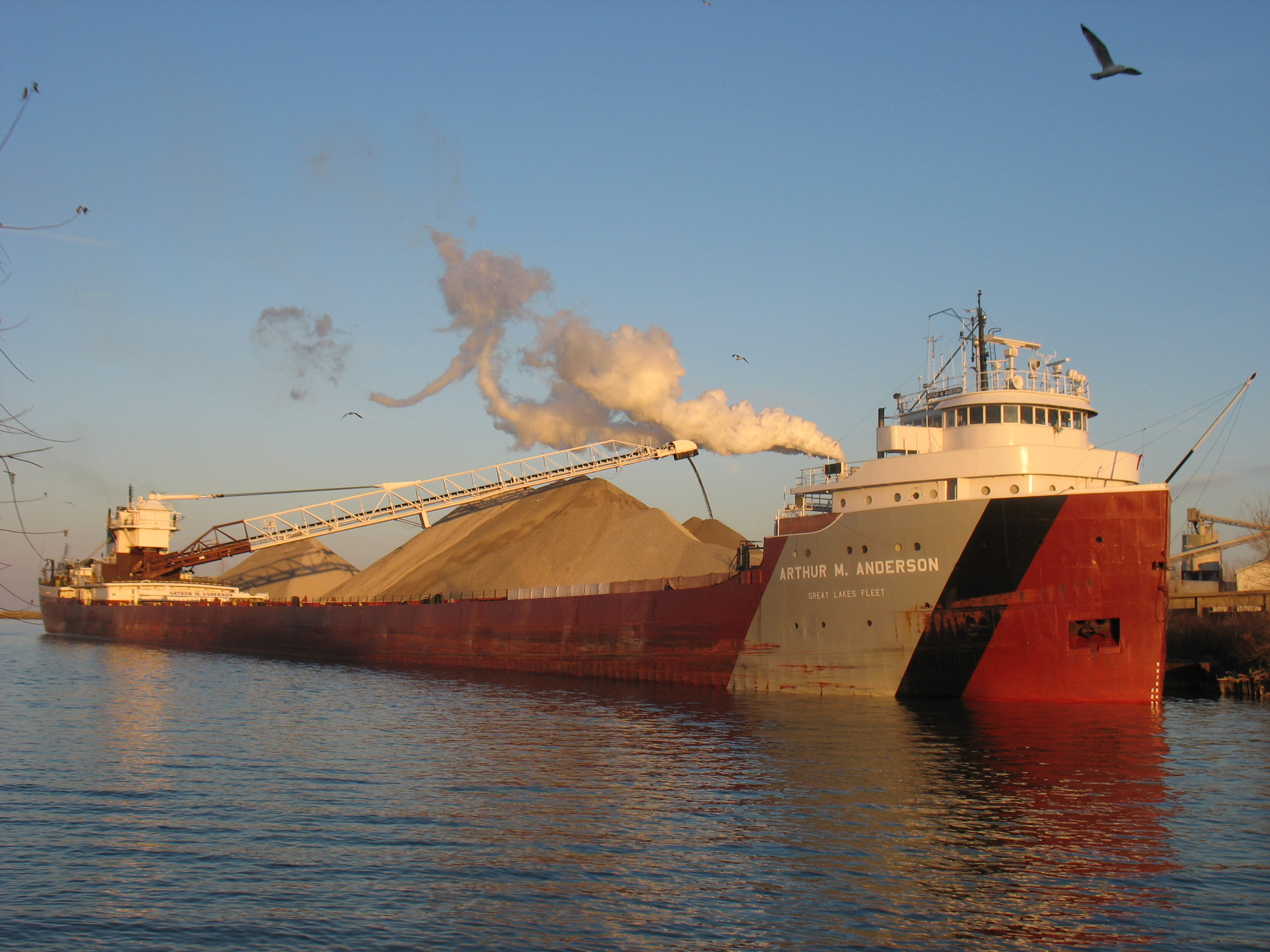 The Arthur M. Anderson unloading at Huron, Ohio, November 29, 2008.